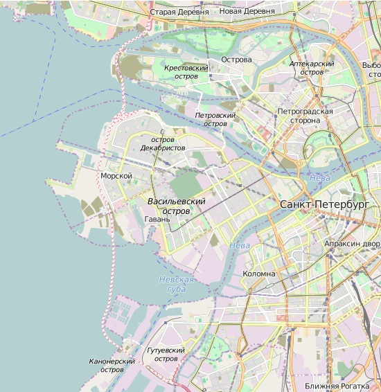 Map of Saint-Petersburg, Russia showing the "Western Rapid Diameter" ("Western High-Speed Diameter") toll motorway between islands. Central part of the Diameter